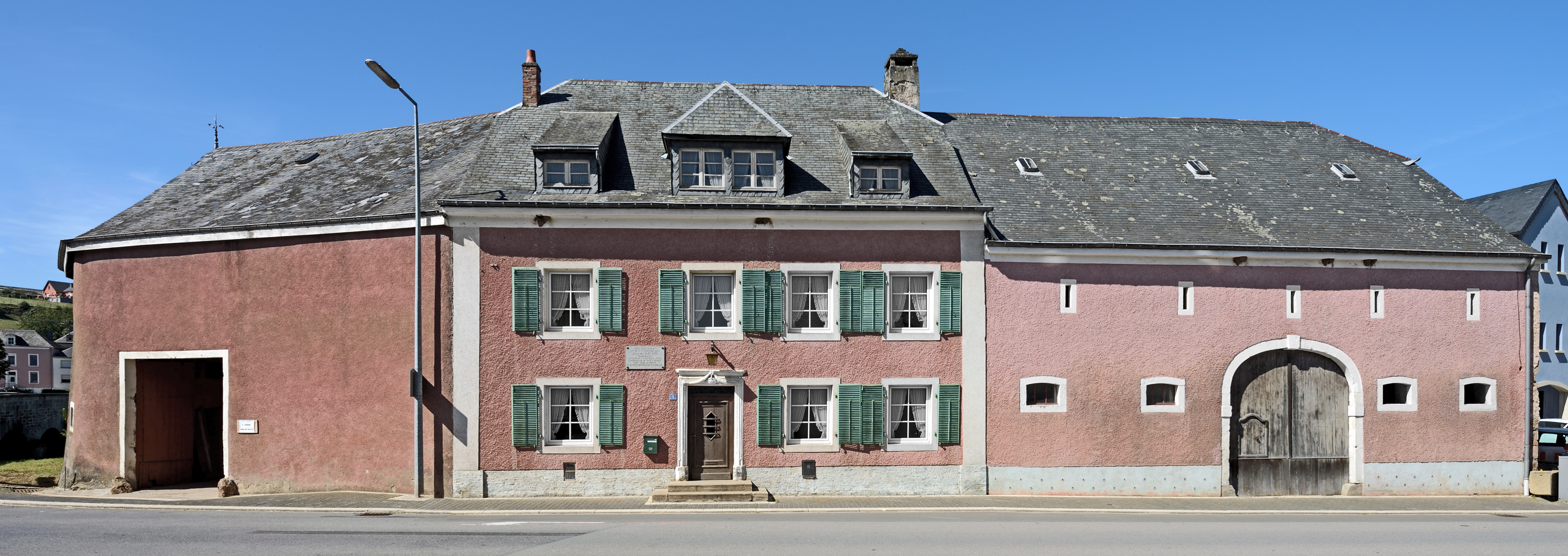 Luxembourg, Boevange-Attert, birth house of Joseph Hackin (1886-1941), French archaeologist with Luxembourgish origins.